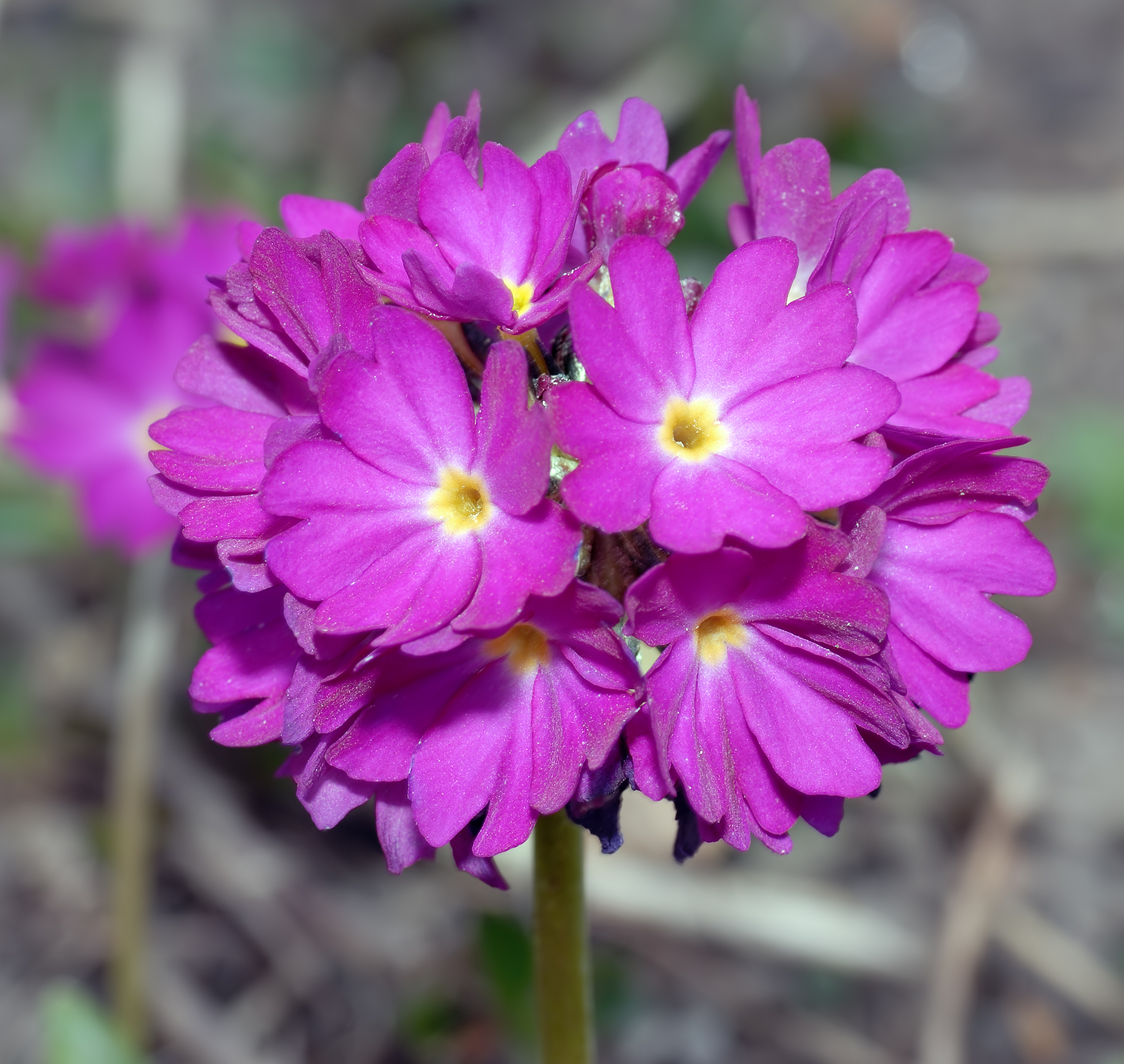 This image shows a Drumstick primula (Primula denticulata).